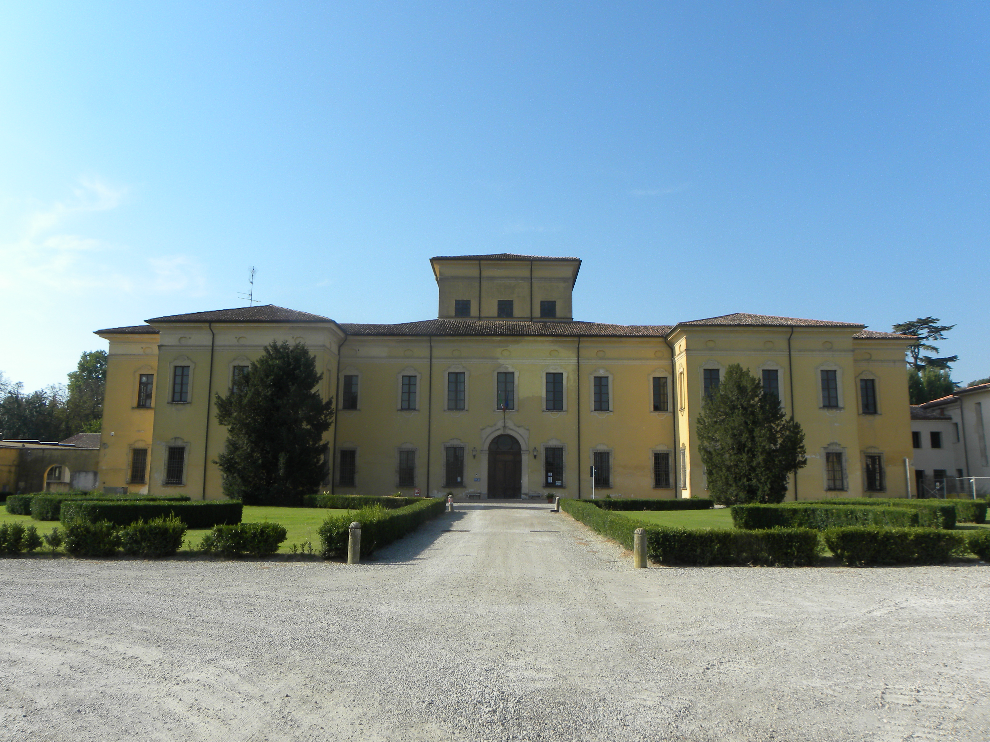 Villa Strozzi in Palidano